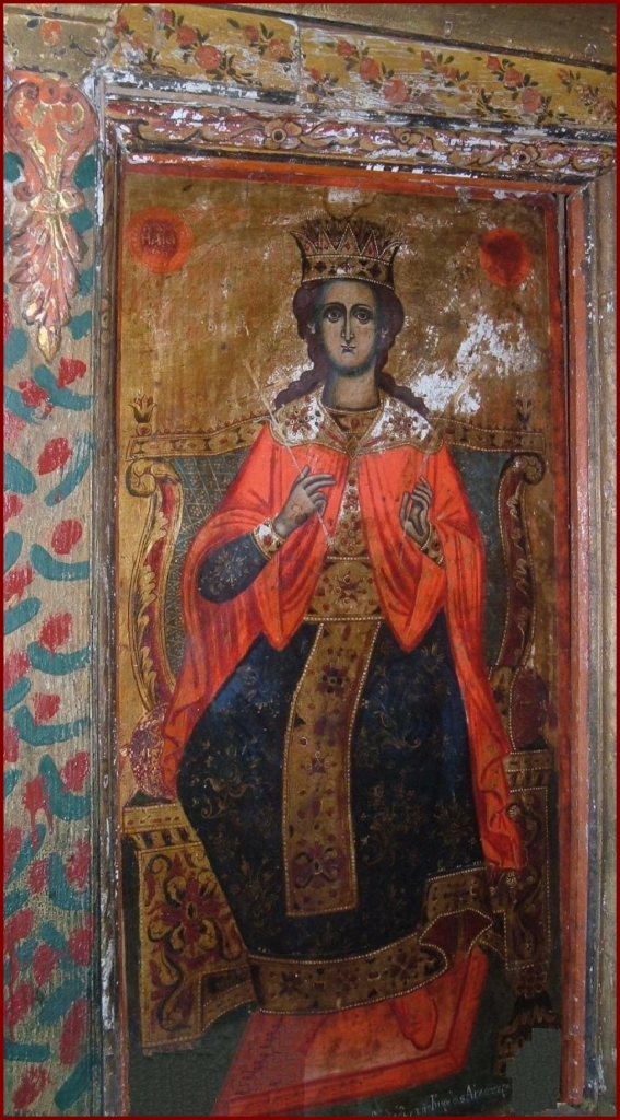 Saint Catherine Icon in Saint George Small Church in Korisos (Gorentsi), Greece.